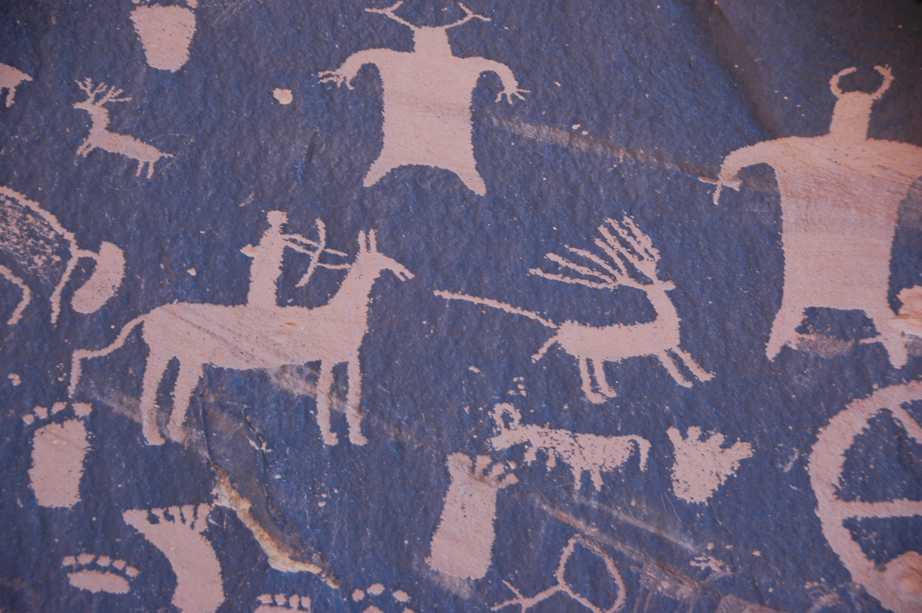 Anthropomorphs & animals & footprints & hunter on horseback & deer - Indian petroglyphs (~100 B.C. to ~1540 A.D.) on desert varnish-covered quartzose sandstone (Wingate Sandstone, Lower Jurassic) in Utah. This is part of a fantastic panel of prehistoric and historic petroglyphs that was carved by several groups - Archaic Indians, the Anasazi, Fremont, Navajo, Pueblo, and Ute. The dark coloration of the rock is desert varnish - a mineral-encrusted rock surface that is common in many desert settings. Desert varnish is composed of clay minerals, brick red-colored hematite, and/or black-colored manganese oxide minerals (for example, birnessite - Scraping or hammering away at the desert varnish exposes the light-colored sandstone. The oldest petroglyphs are identified by the partial development of another layer of desert varnish - they are dark-colored than younger petroglyphs. Locality: Newspaper Rock, Newspaper Rock State Historic Monument, southeastern Utah, USA